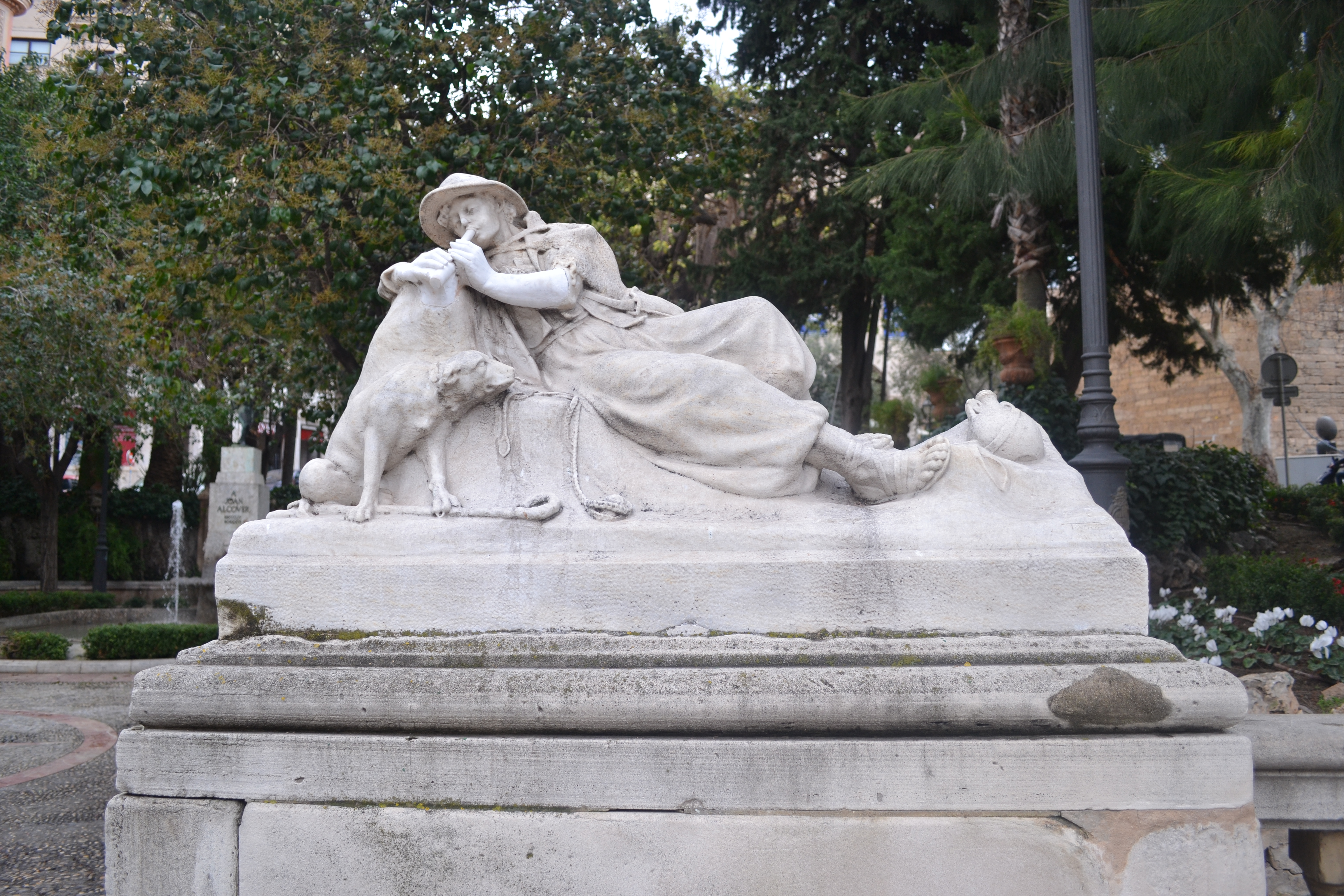 Pastor by Tomás Vila, 1950. Now, in Plaza de la Reina, Palma de Mallorca.